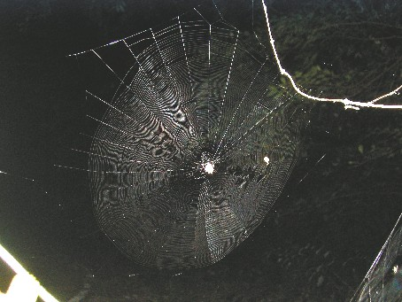 web of Poltys columnaris from Okinawa.